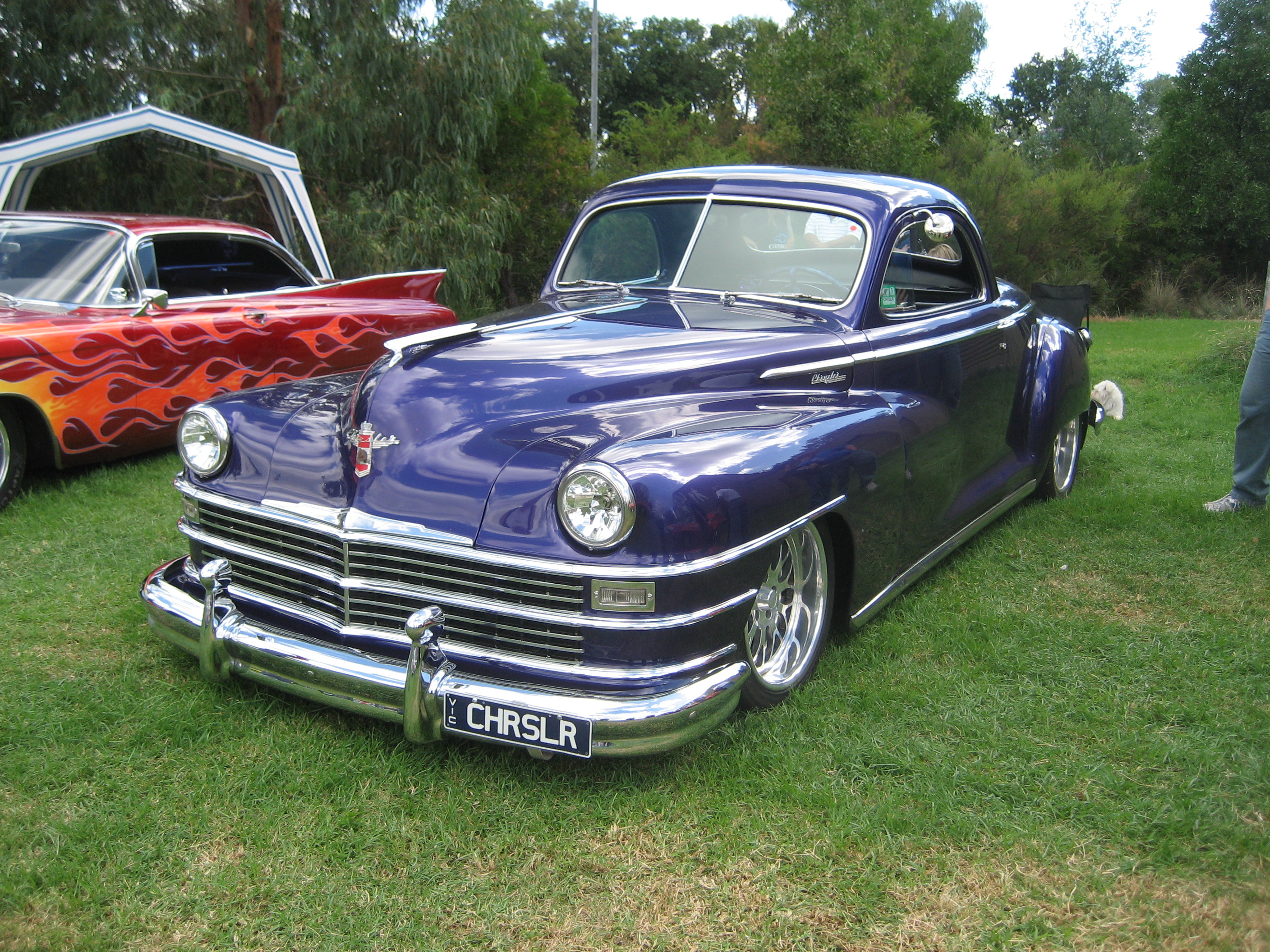 The 46-49 Newyorker was Known for its 'Harmonica" grille and was available in Sedan, Coupe or Convertible. Engine; 323 cu in in line 8